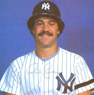 Professional baseball player Rick Cerone during the 1981 season as a member of the New York Yankees.